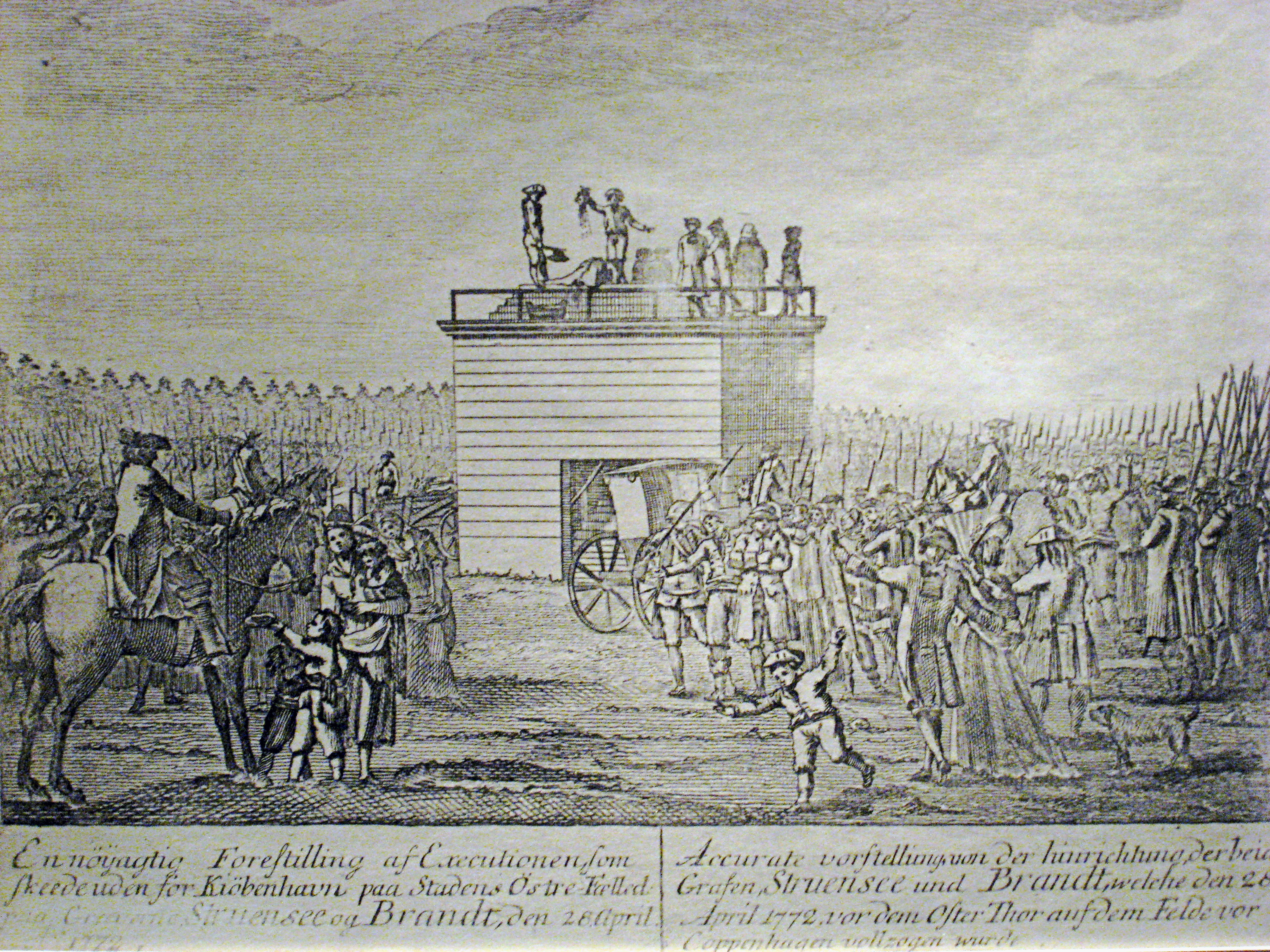 Johann Friedrich Struensee and his companion Brandt are beheaded in Copenhagen on 4/28 1772